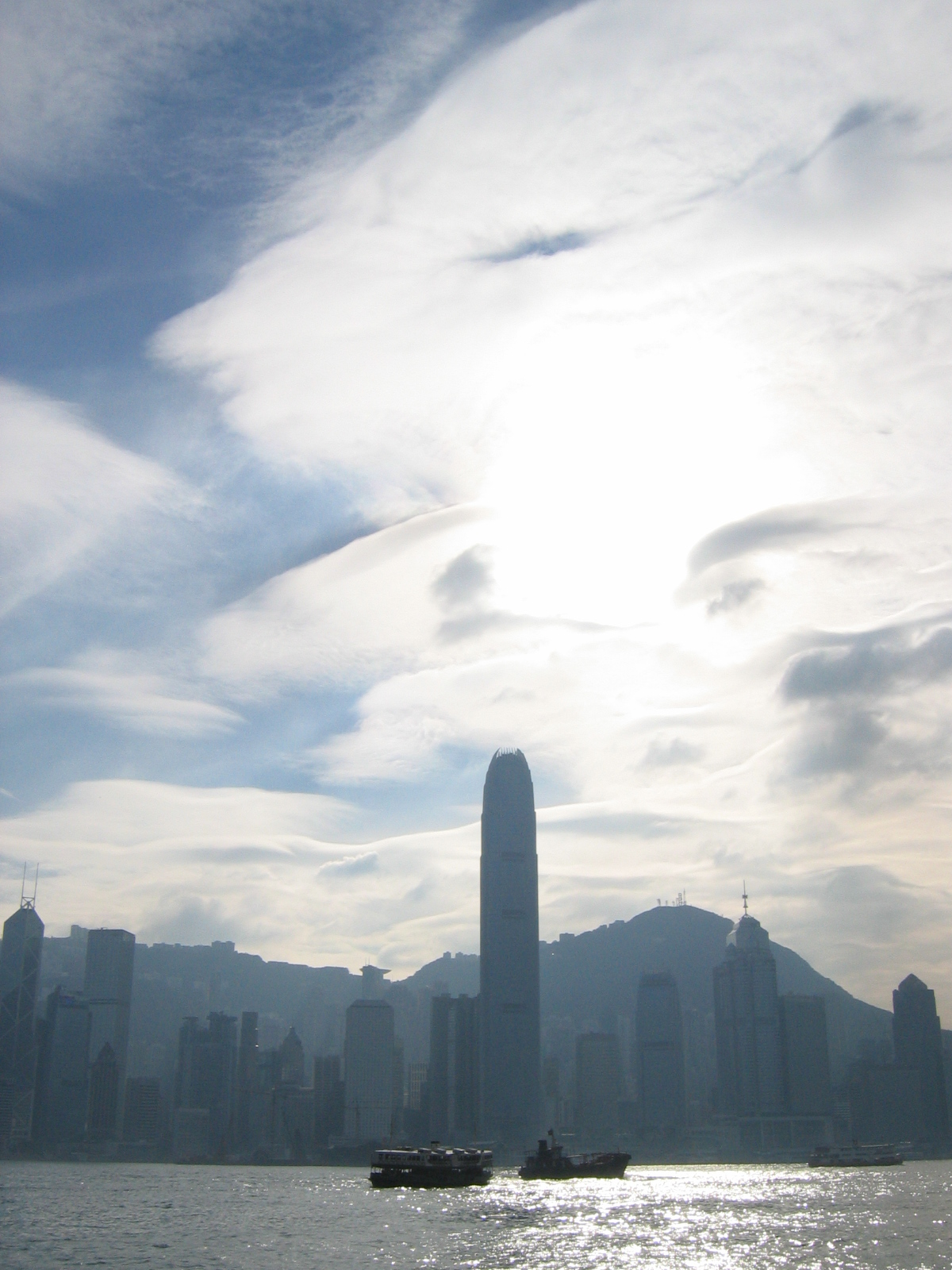 Victoria Harbour, Hong Kong Date:29 December 2005 Taken by Simon Shek